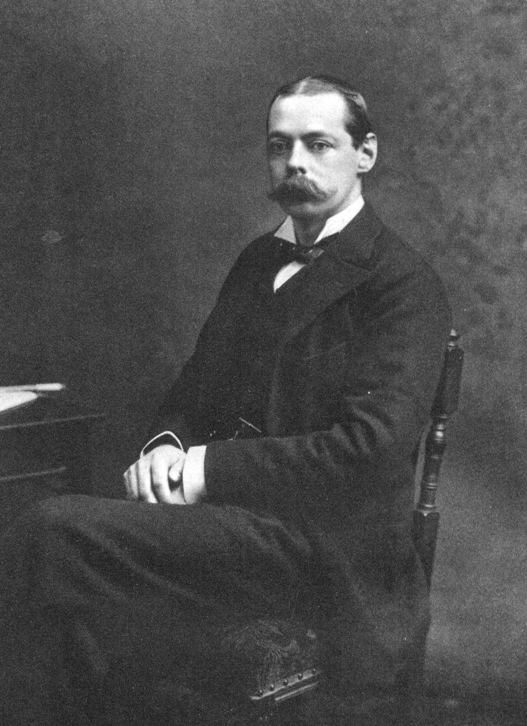 Portrait photograph of Lord Randolph Churchill taken in 1883.